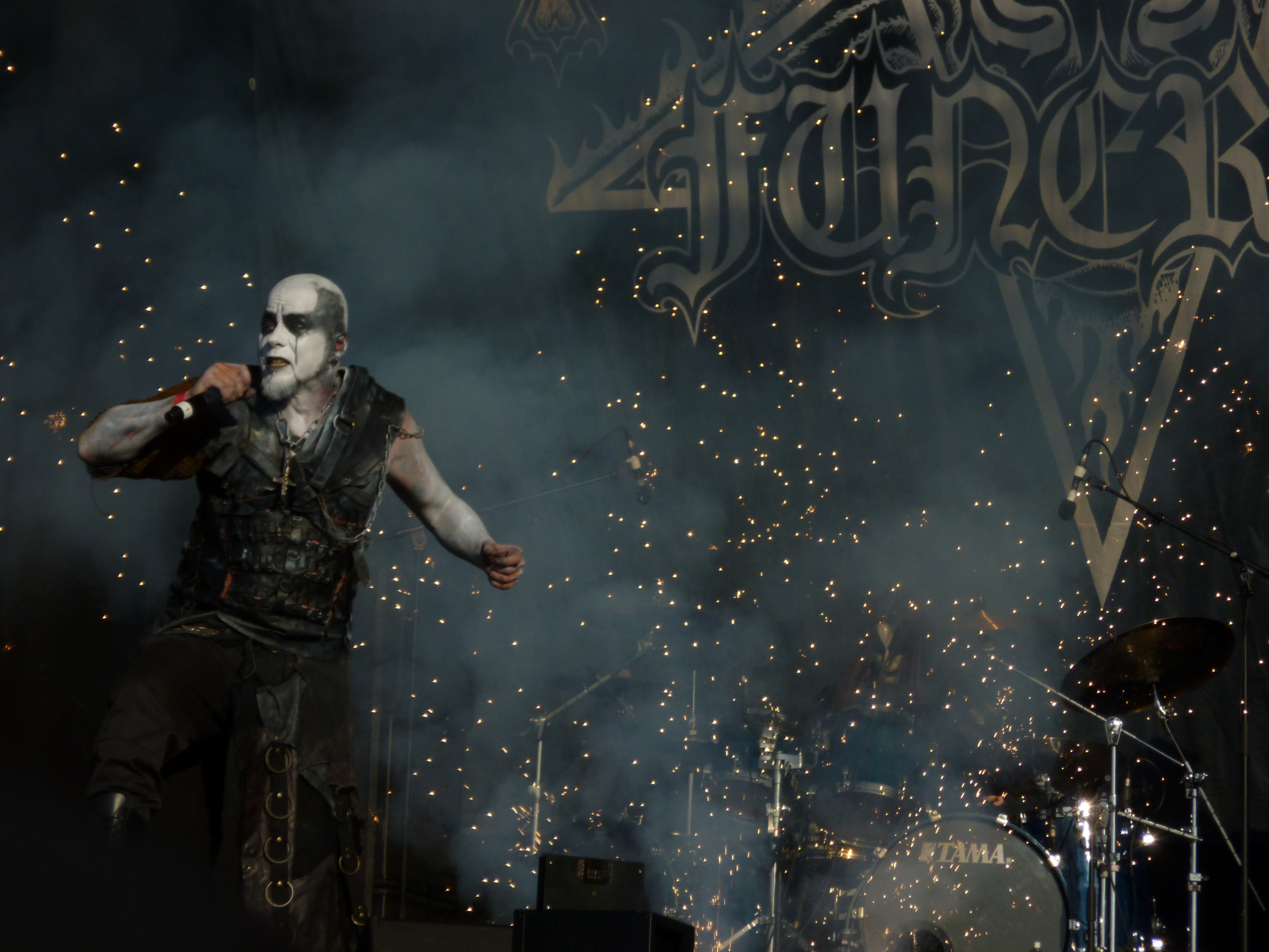 Swedish black metal band Dark Funeral performing at Wacken 2012.